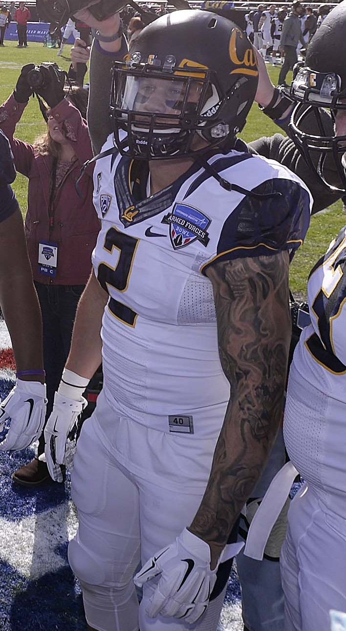 The Air Force Falcons and Cal Golden Bears meet at midfield for the coin toss before the 2015 Armed Forces Bowl